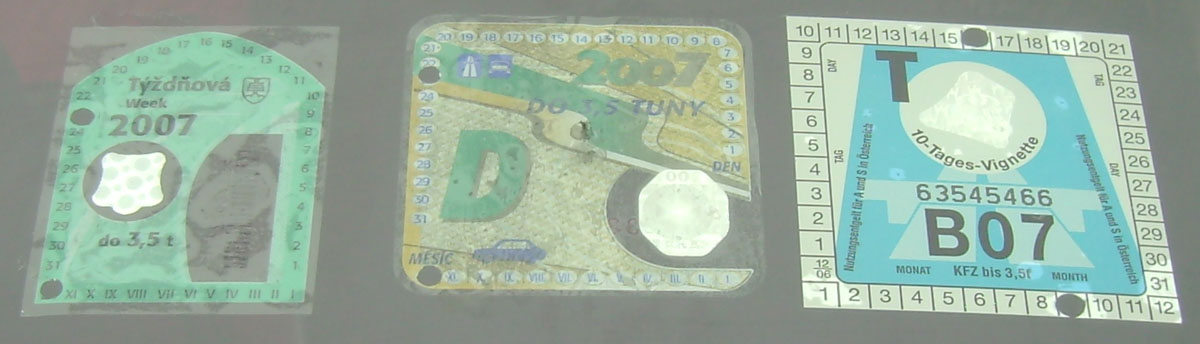 Highway vignets on a windscreen for Slovakia, Czech Republic and Austria